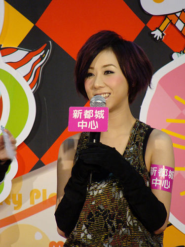 中文（香港）: 泳兒 新都城中心 Pieces of V簽唱會